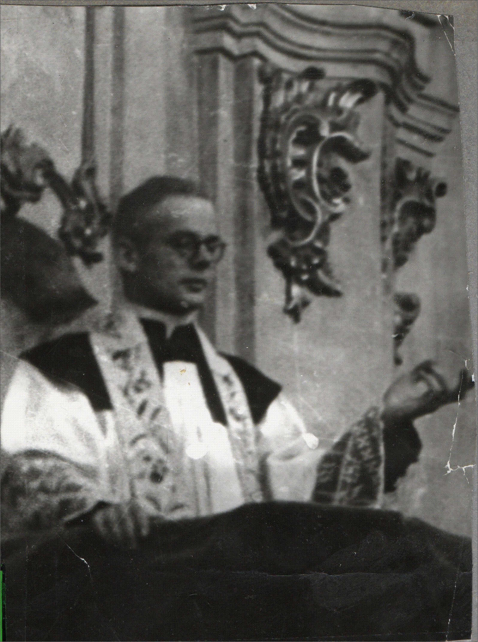 Fr. Tadeusz Hoppe gives the homily from the pulpit.